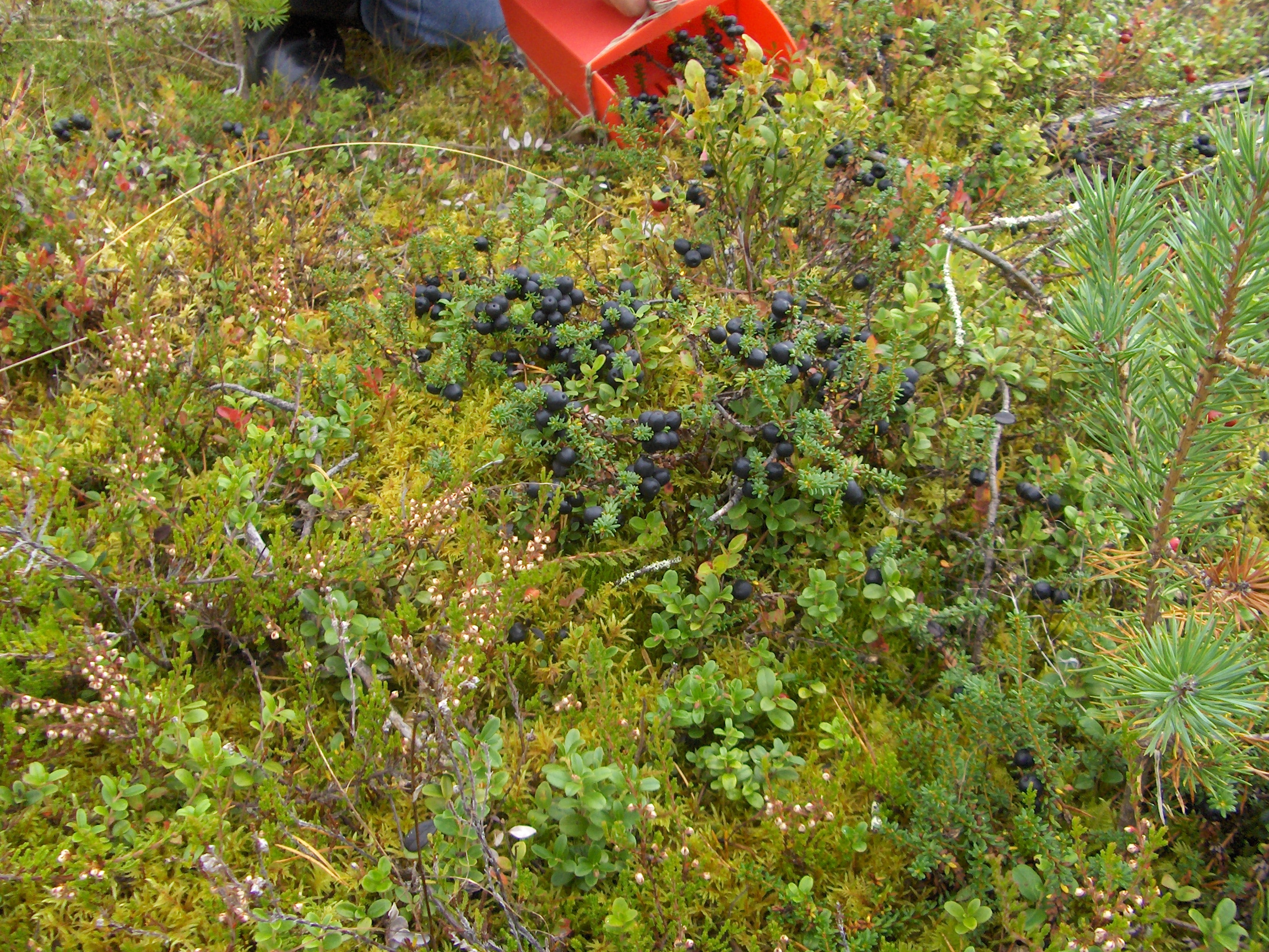 A lady picking crowberry with a combine in Northern Finland